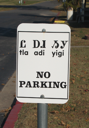 No Parking traffic sign in Cherokee syllabary and English in Tahlequah, Oklahoma